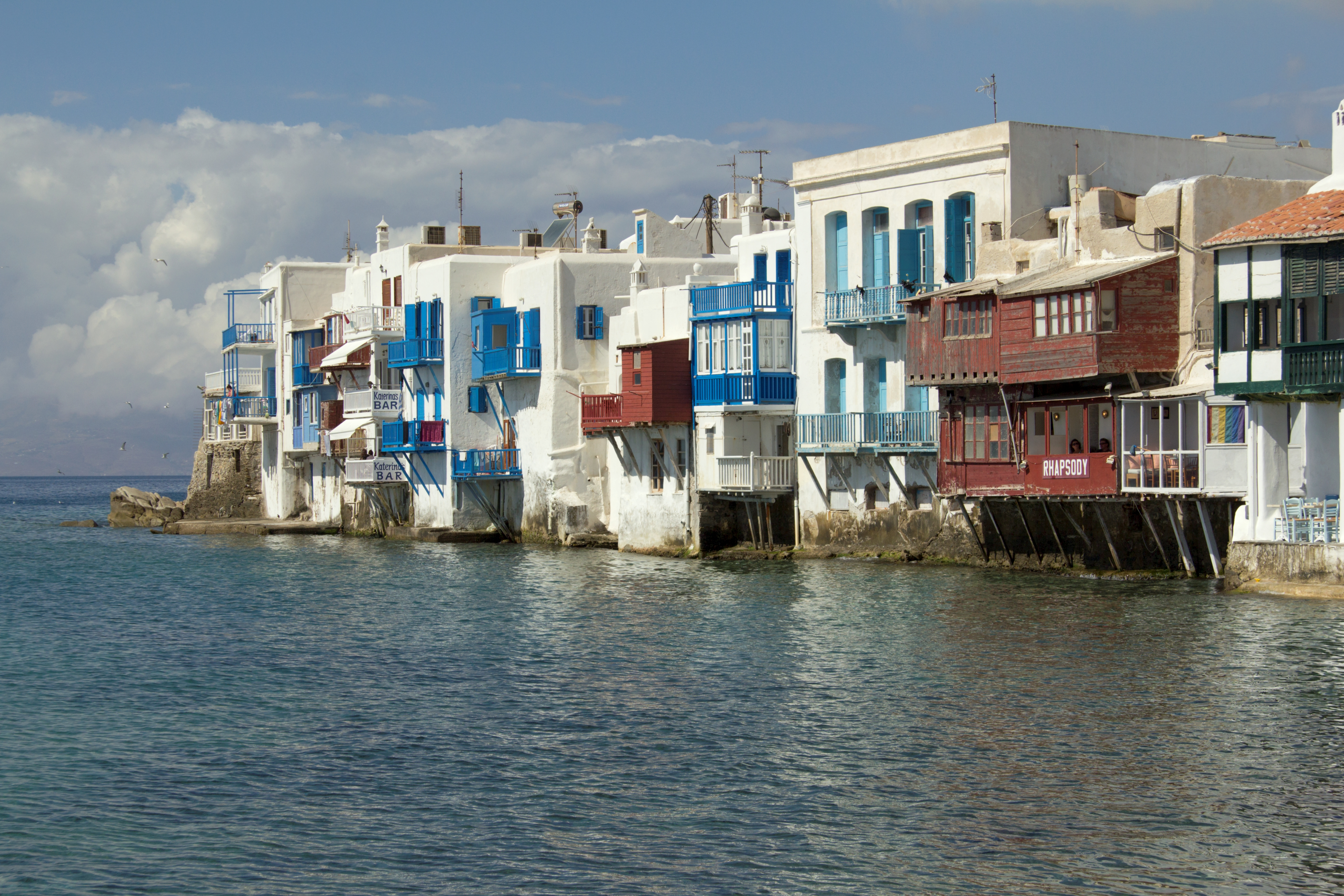 Little Venice in Chora of Mykonos.